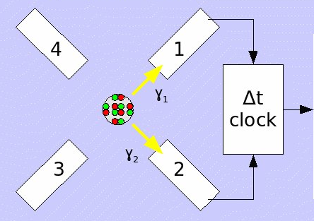 PAC-Spectroscopy: Schema of instrumental setup.